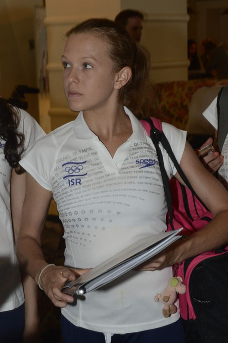 Marina Shultz, 2012